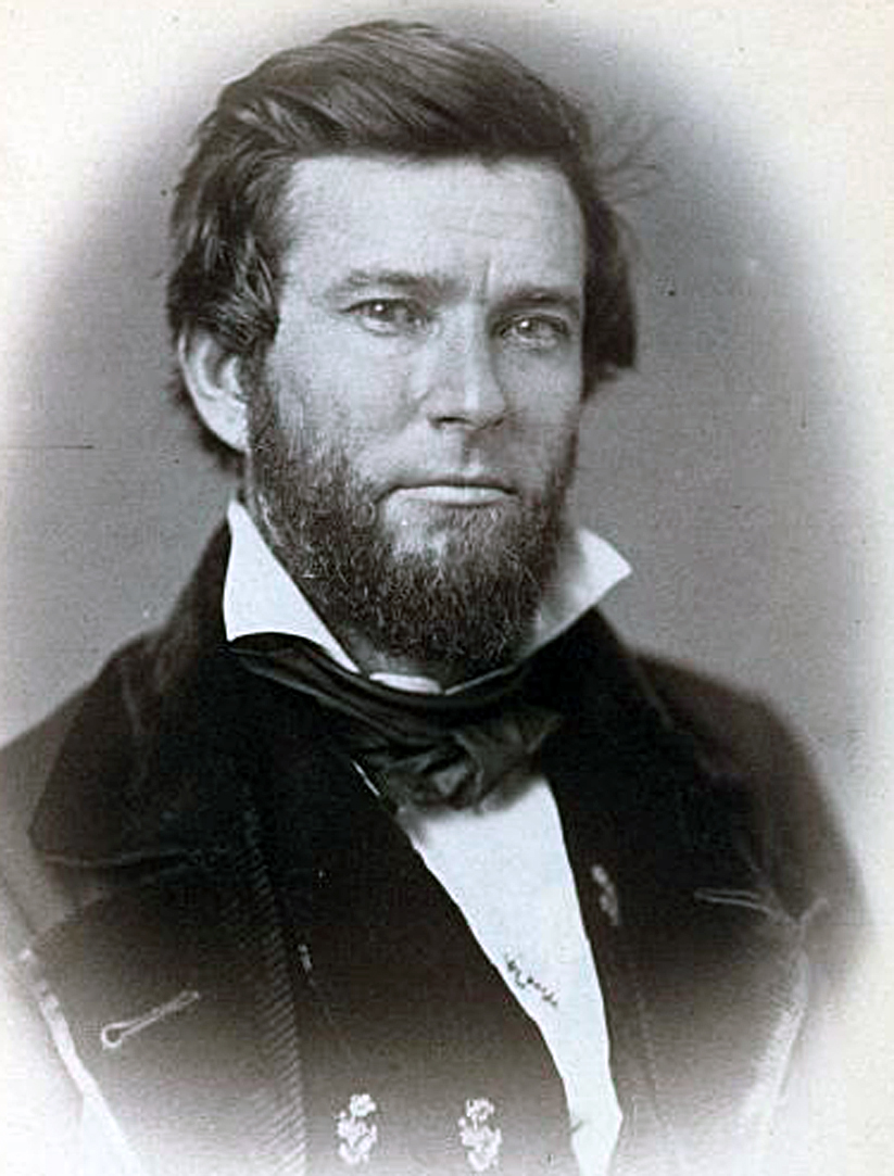 William Tecumsah Avery, US Representative from Tennessee